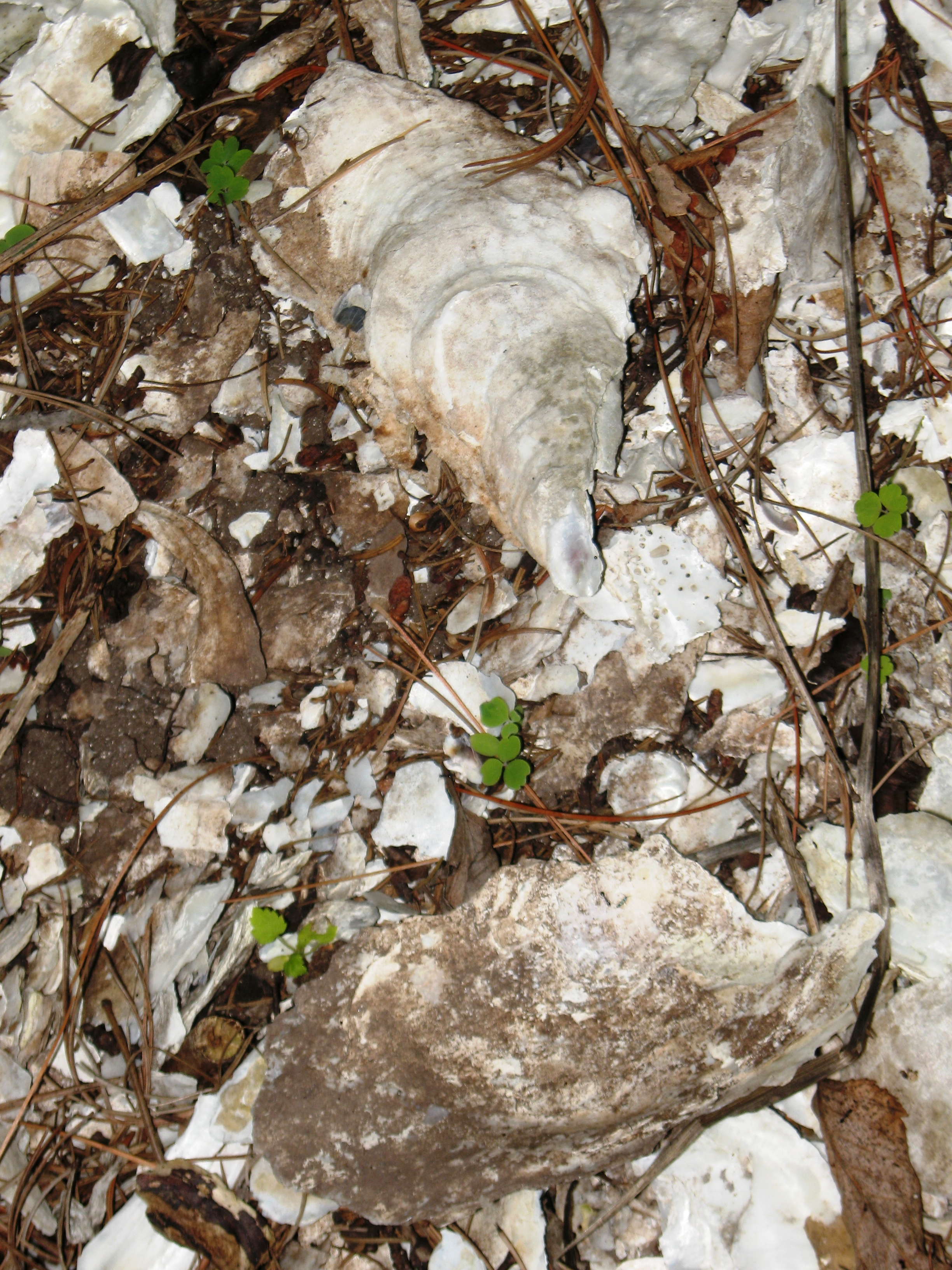 Closeup of the 1,000 - 2,200 year old oysteren shells in the Whaleback Shell Midden along the Damariscotta River in Maineen.